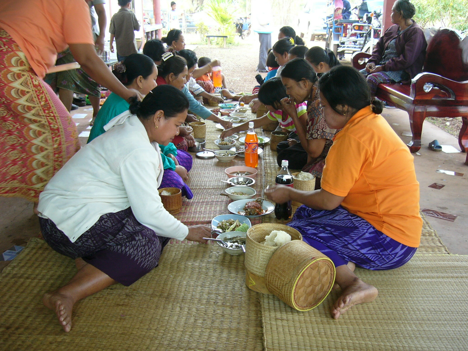 Women eating from a buffet, Thai style - seen near Ban Dung, Udon Thani province, Thailand, during a festivity. Permission of pictured persons given for publication.